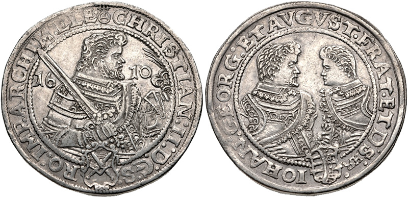 GERMANY, Sachsen-Albertinische Linie. Christian II, with Johann Georg & August. 1591-1611. AR Taler (41mm, 29.05 g, 4h). Dresden mint; Hans Biener, mintmaster. Dated 1610. Half-length armored bust of Christian right, holding sword and plumed helmet / Facing half-length armored busts of Johann Georg and August. Schnee 767; K&K 228; Davenport 7566. VF, lightly toned, minor areas of weak strike at periphery. Choice for issue.